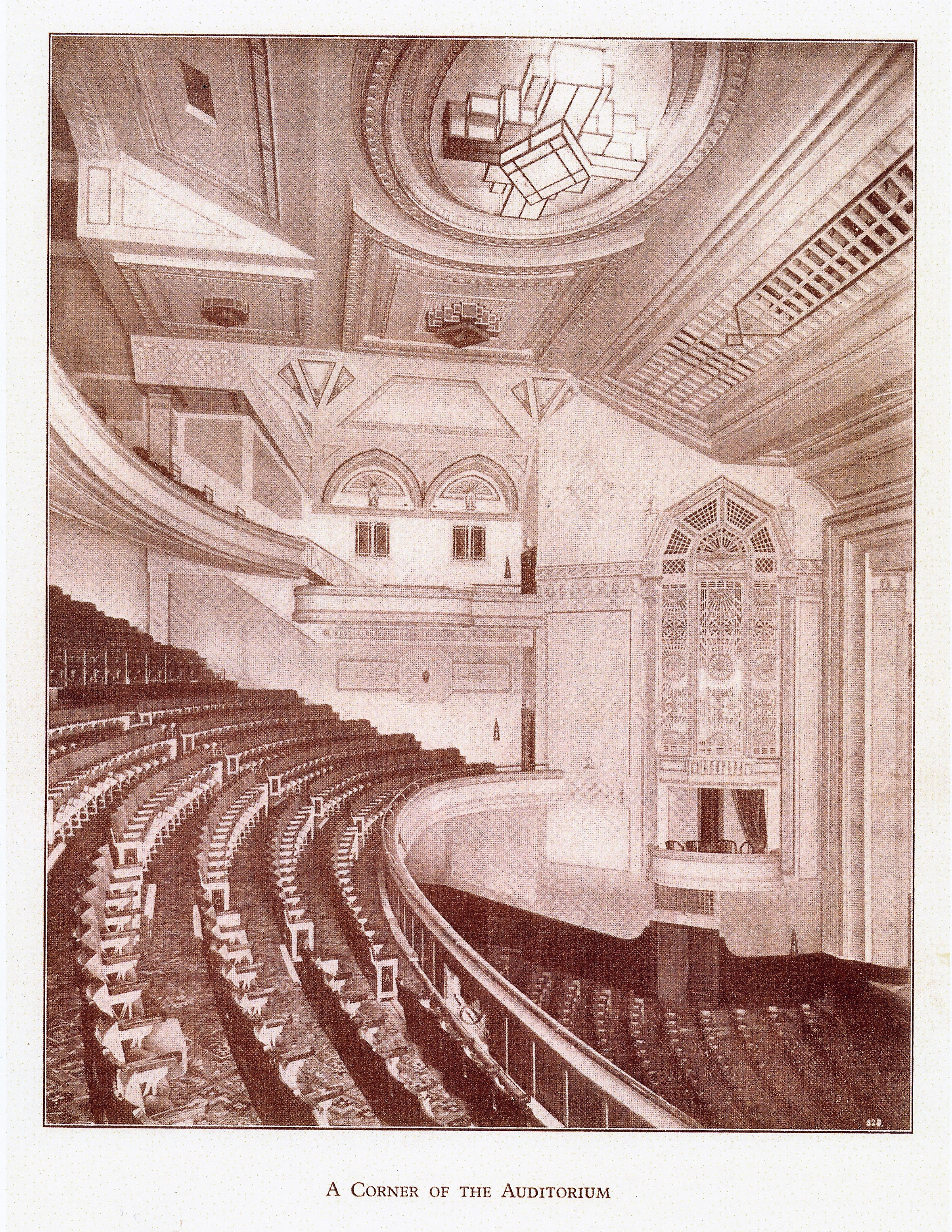 Photo in public brochure by Moss Empires Ltd of 1931 rebuilding. Company liquidated in 1960s.